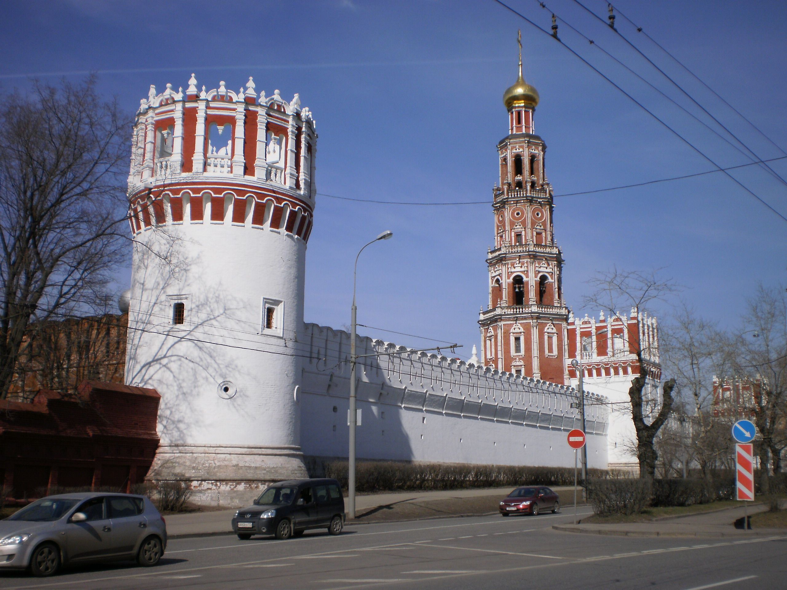 Novodevichy Convent